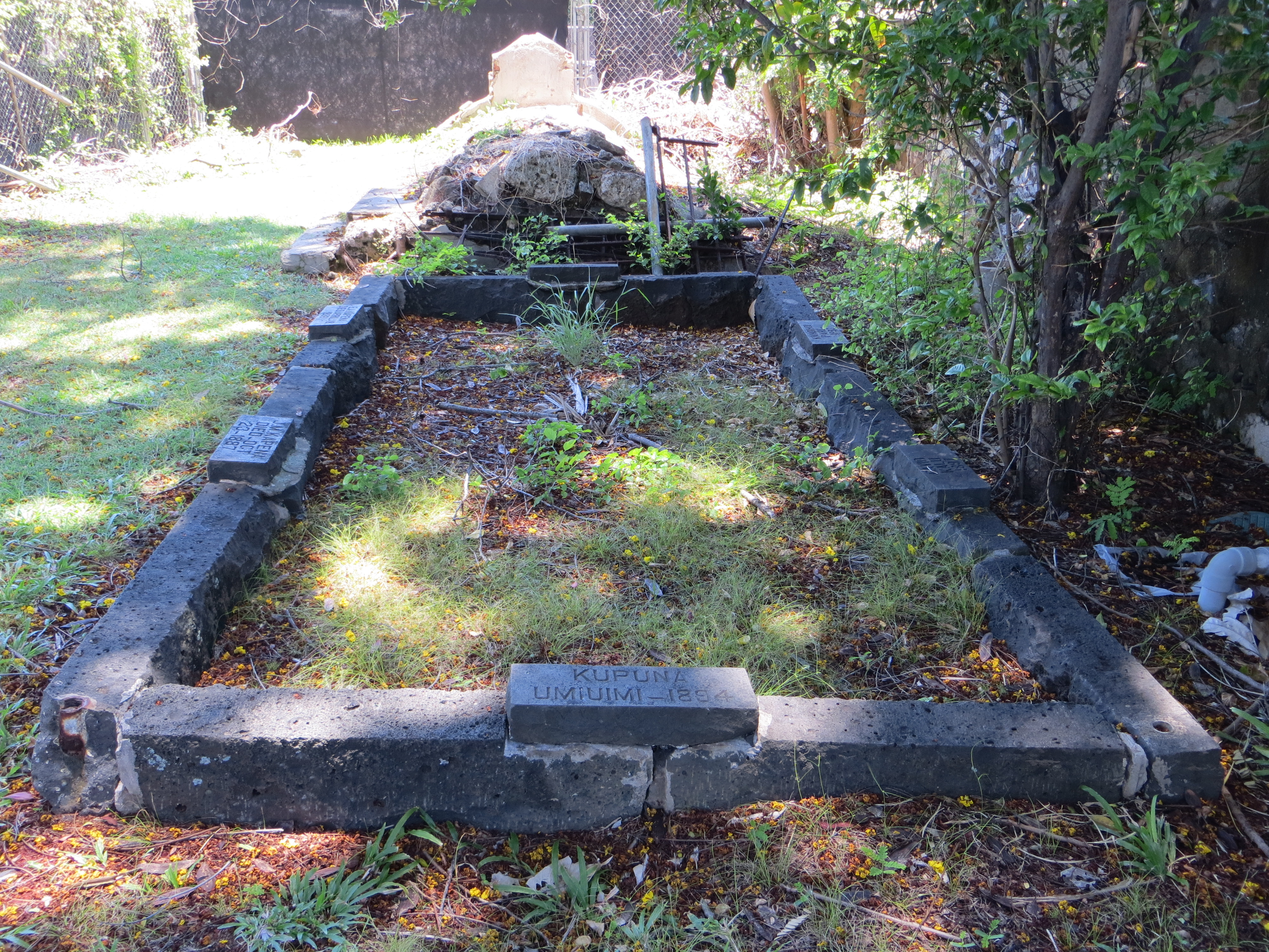 Kapena family tomb and plot in Kawaiaha‘o Church cemetery, Honolulu, Hawaii